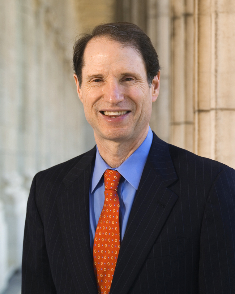 Official portrait of United States Senator Ron Wyden.